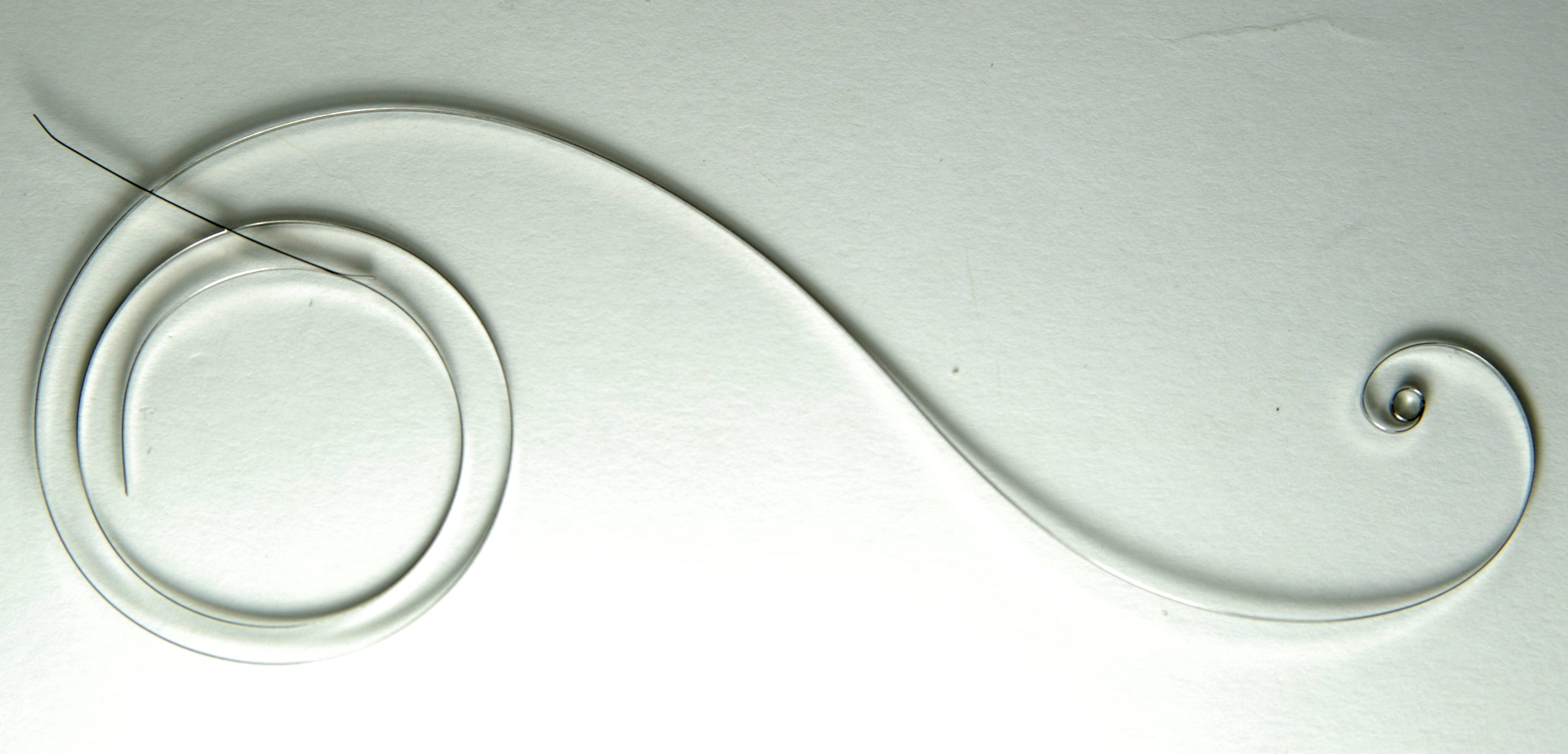 An uncoiled mainspring from a Seagull ST16 watch movement, which is an automatic (self winding) movement. This spring is seen coiled in the same style of movement in File:Watch automatic mainspring.jpg.